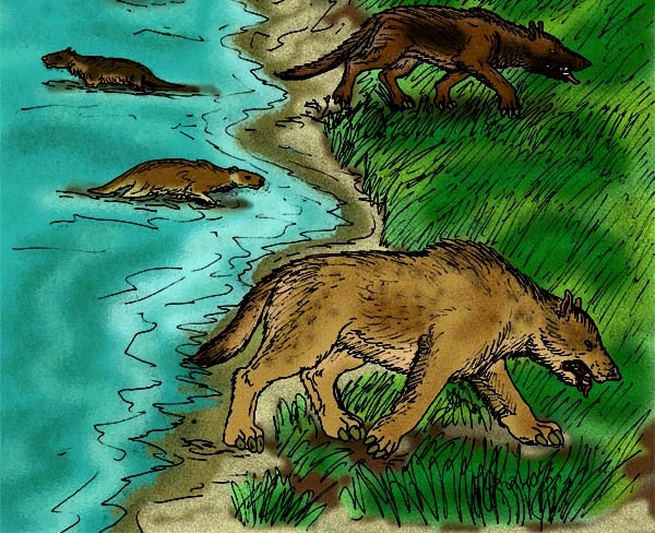 Reconstructions of various mesonychians from Middle Eocene Mongolia, including mesonychids Mongolonyx and Harpagolestes, and the otter-like hapalodectids Honanodon and Lohoodon. (C) Stanton F. Fink